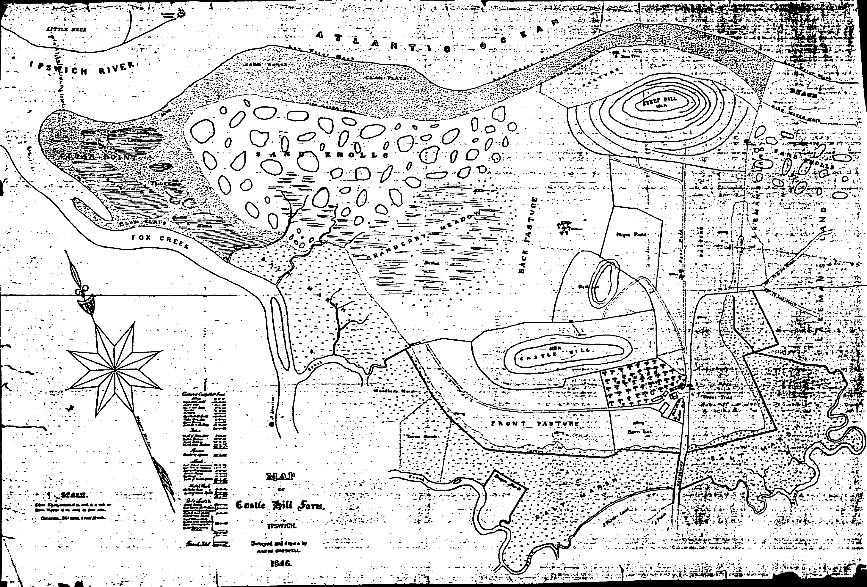 Map of Castle Hill Farm, Ipswich, Massachusetts, 1846.